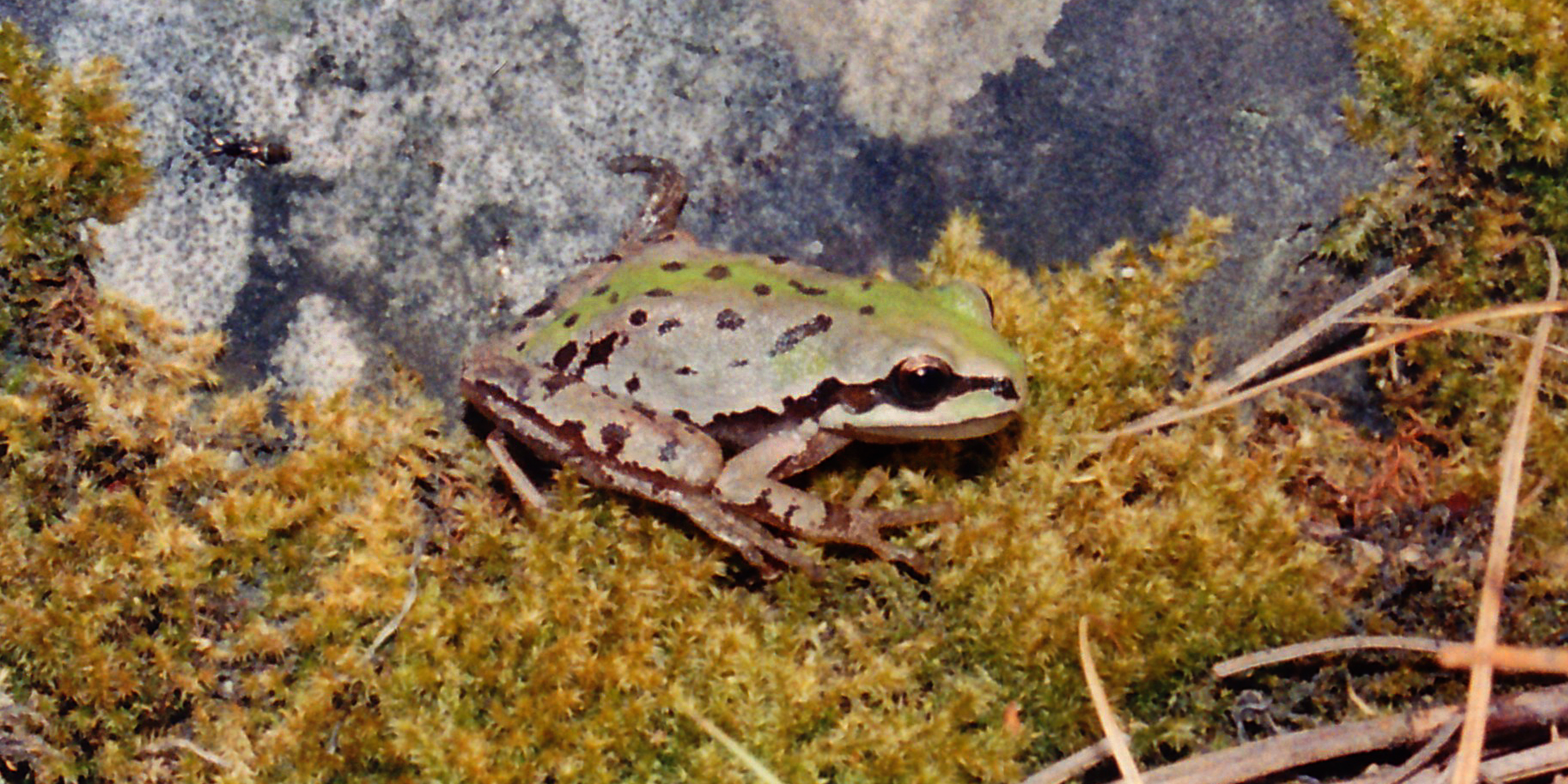 Mountain Treefrog, (Dryophytes eximius), Municipality of Gómez Farías, Tamaulipas, Mexico. Photographed on 27 May 2005 by William L. Farr. This image was originally photographed with film and later scanned from a print.